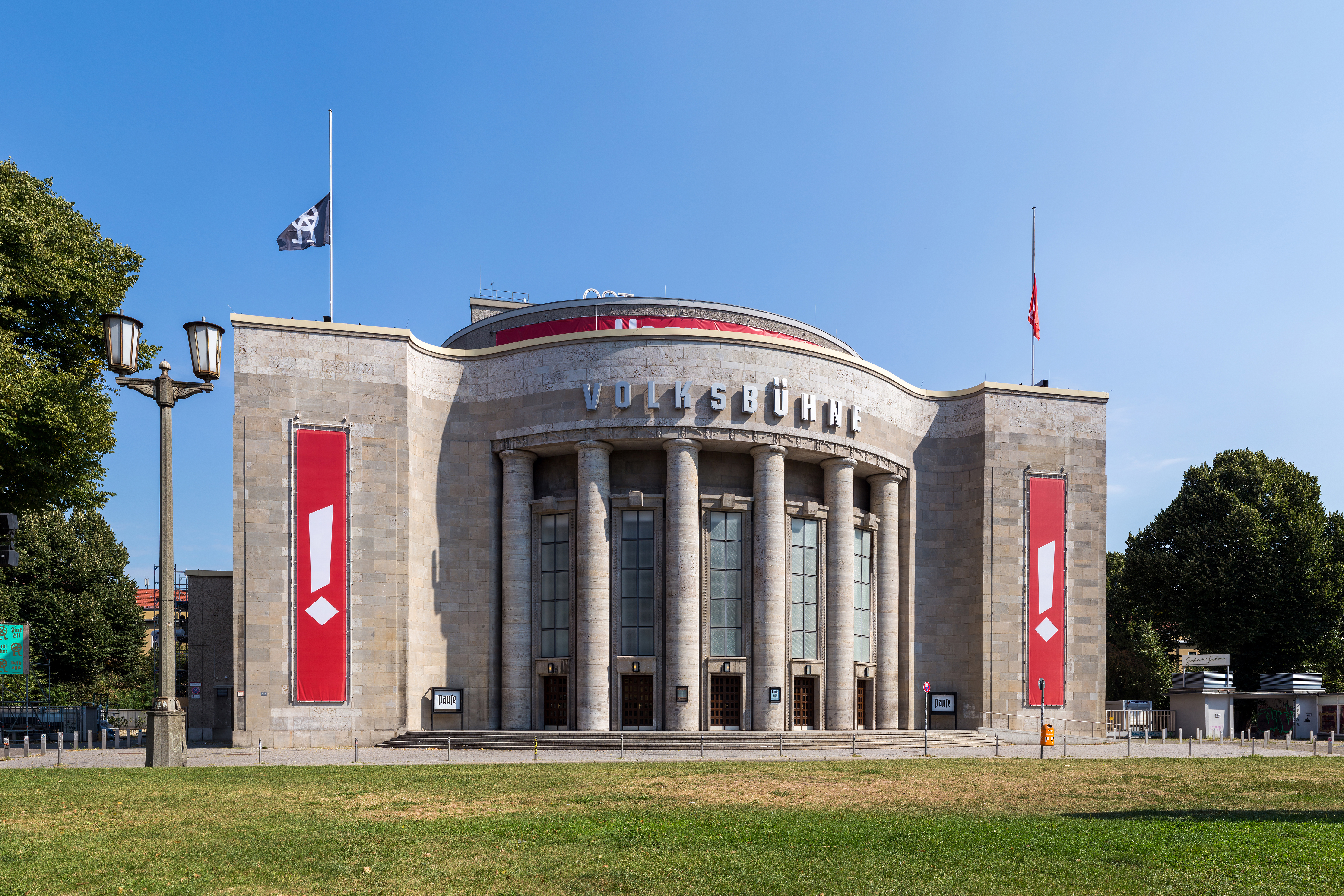 Volksbühne theater at Rosa-Luxemburg-Platz in Berlin. The theater was built between 1913 and 1914 according to plans of the architect Oskar Kaufmann.